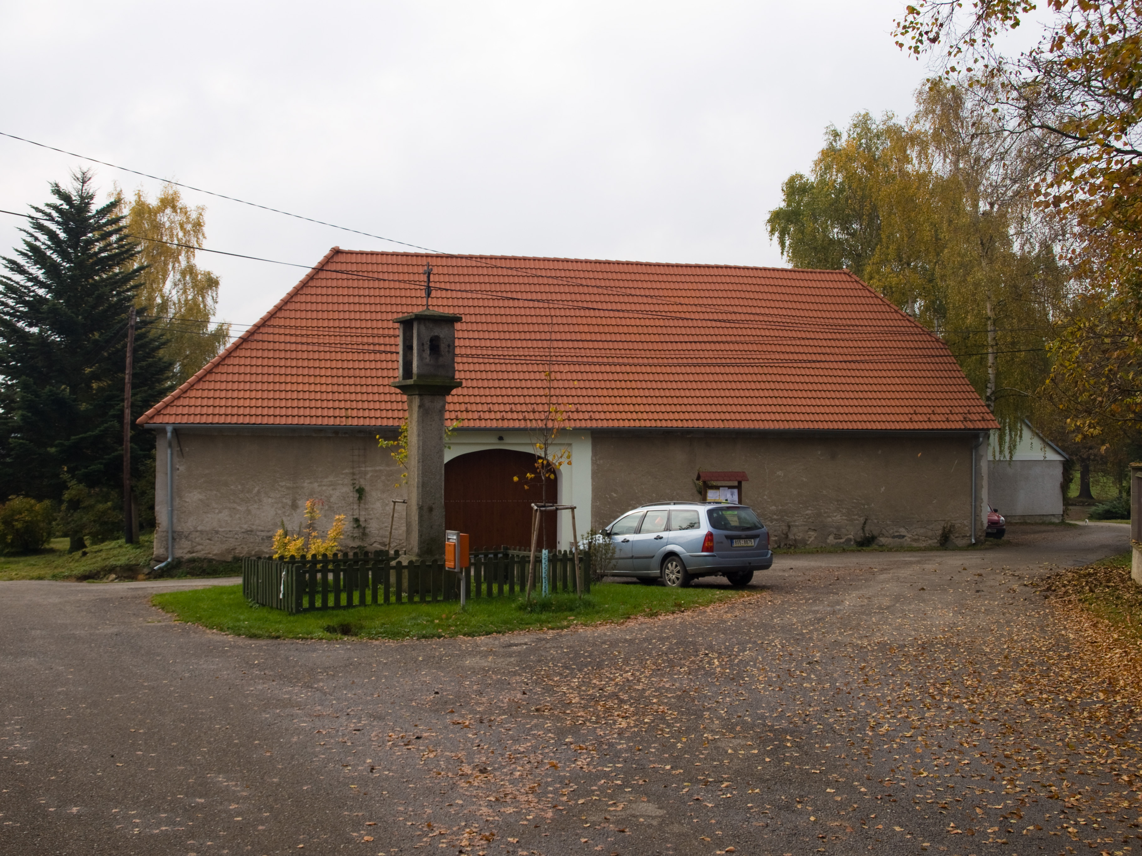 Village square, Řehovice, Maršovice, Benešov District, Czech Rebublic